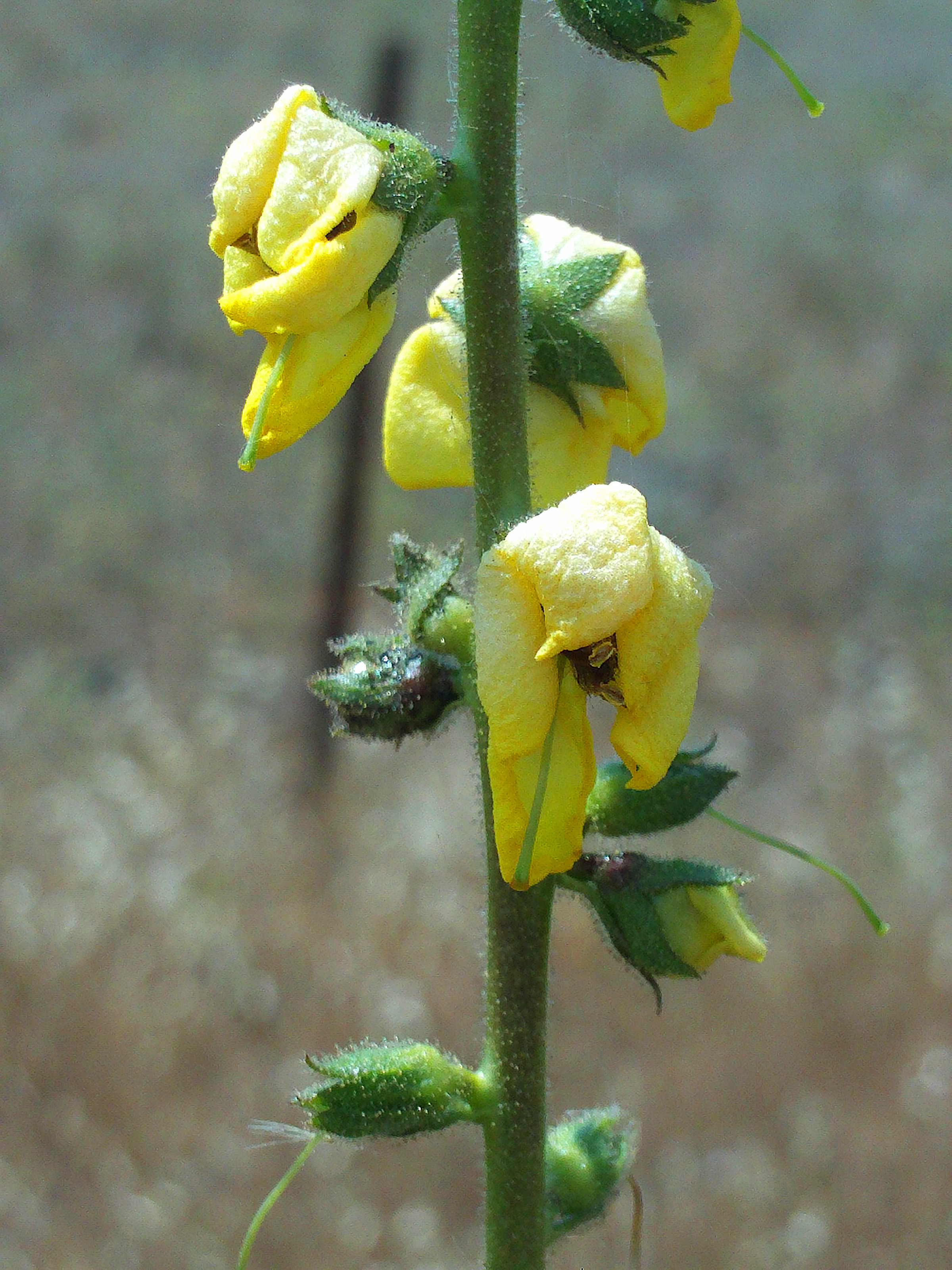 Verbascum simplex flowers close up, Valle de Alcudia, Spain